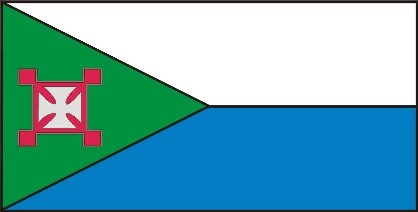 Bandera-La Carlota